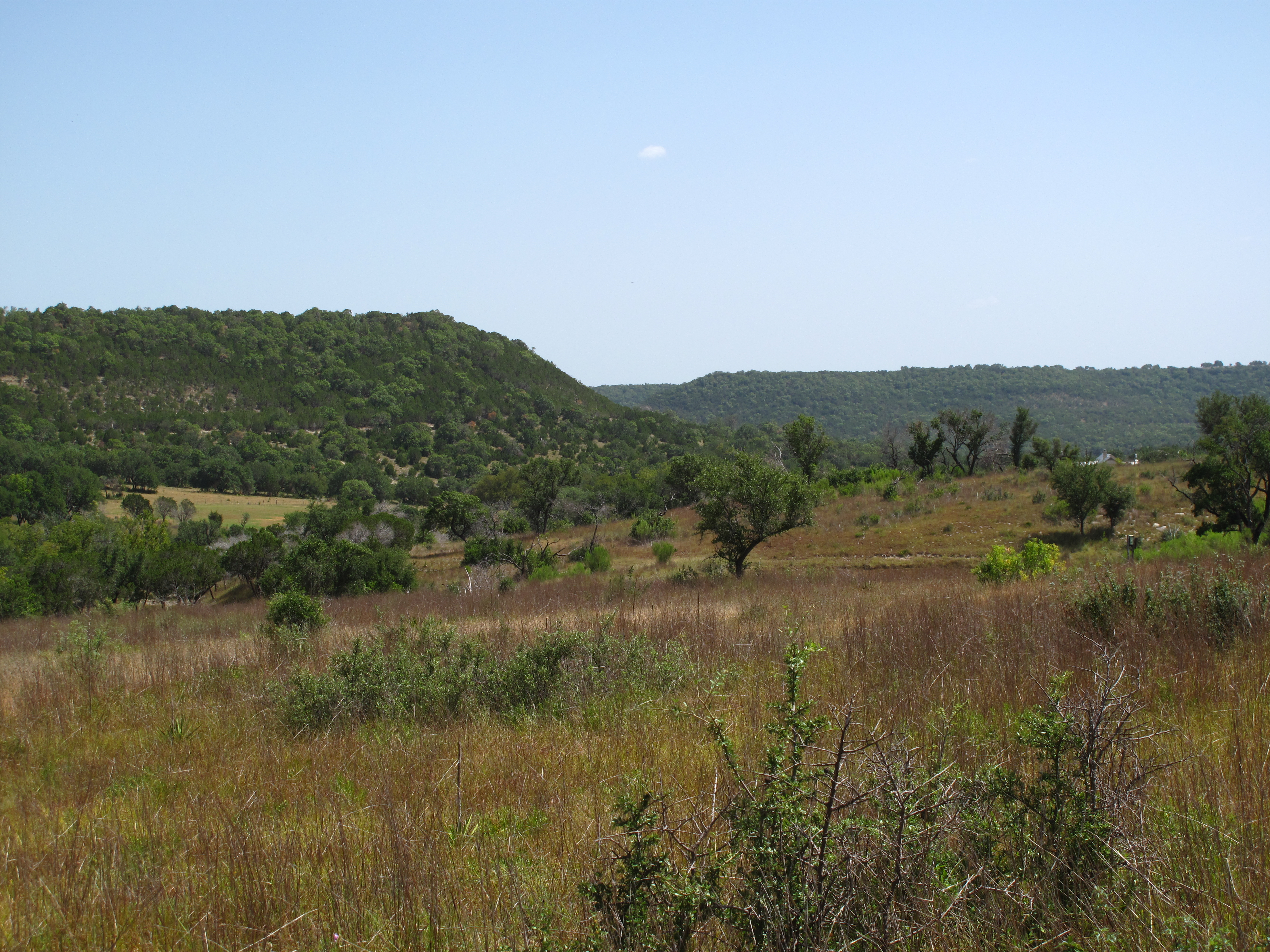 A view of the Balcones Canyonlands National Wildlife Refuge, near the Travis County/Burnet County border, approximately 45 miles northwest of Austin. This is a typical scene of the Balcones Fault and the general Texas Hill Country.